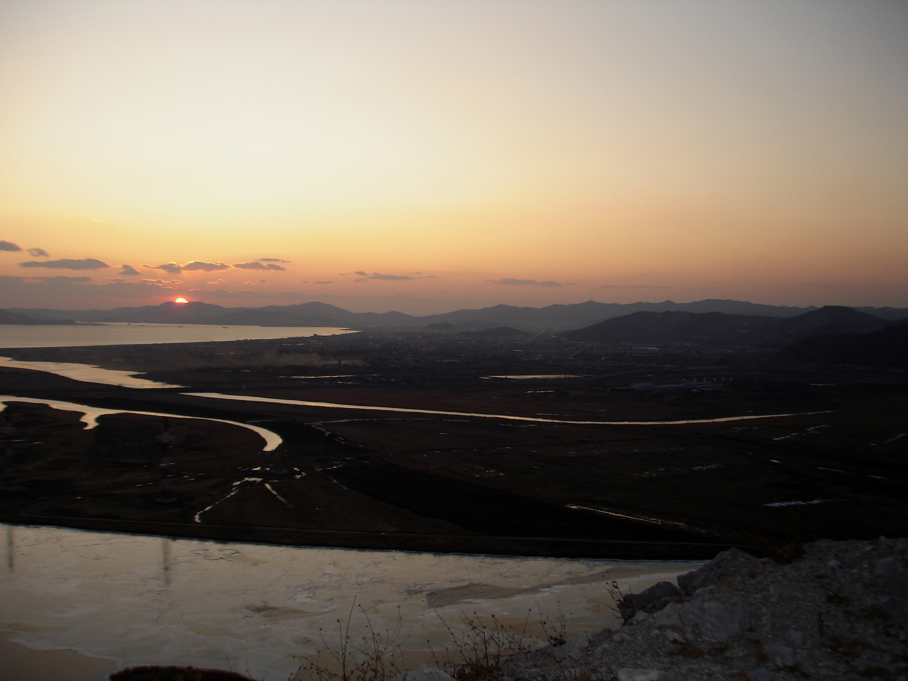 Mouth of Partizanskaya and Nakhodka Bay at Sunset. Viewing from Sopka Brat.